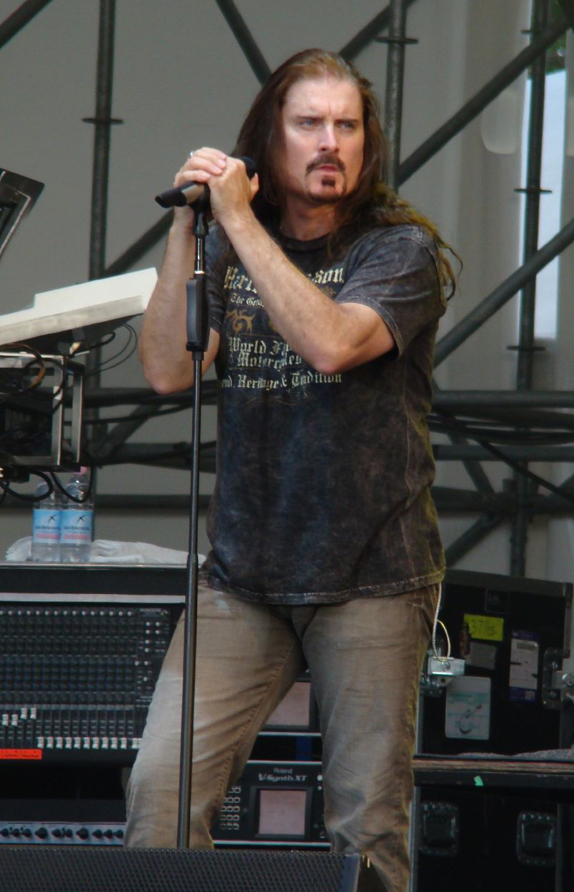 James LaBrie, american vocalist